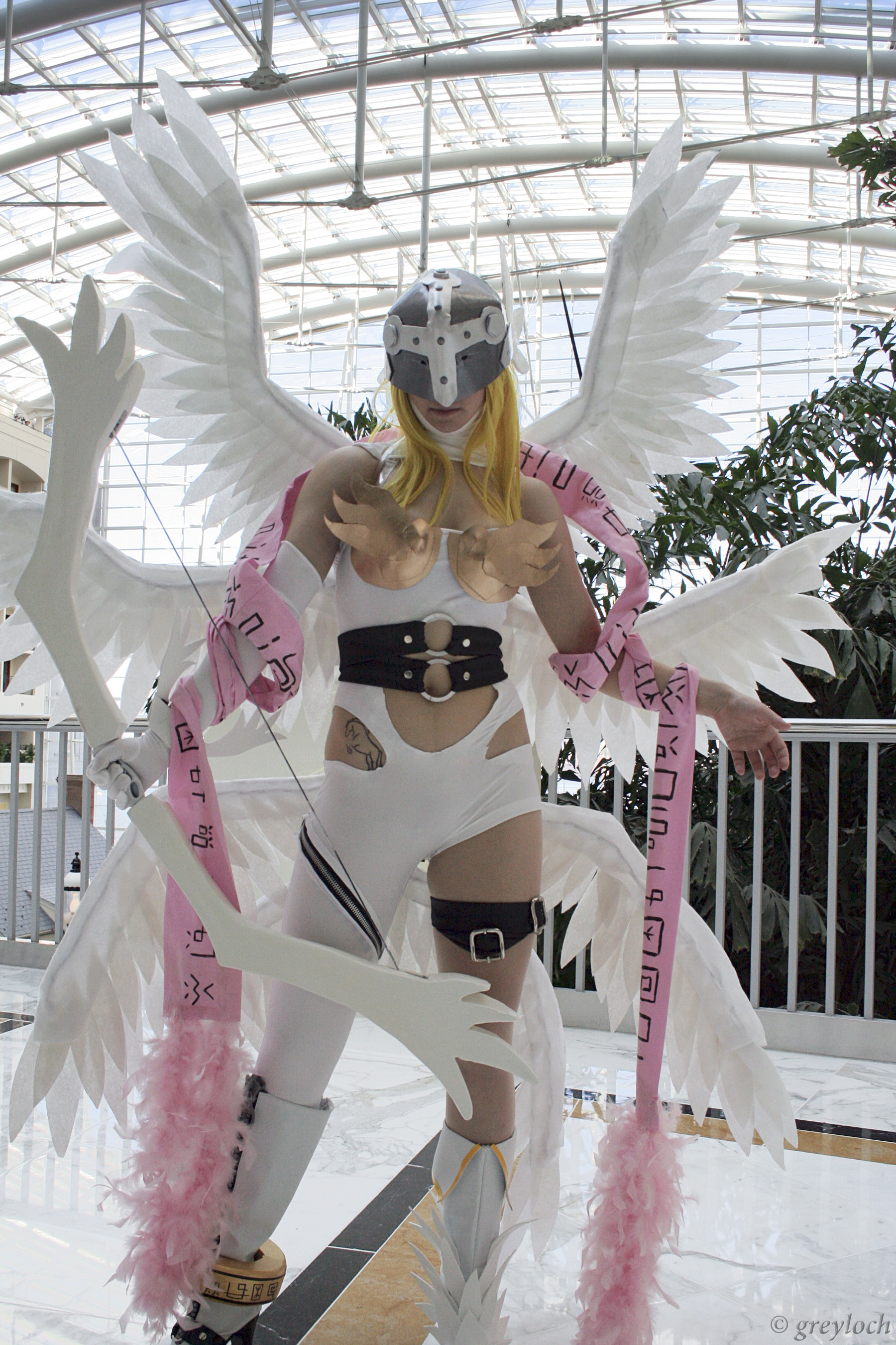 Cosplay of Angewomon.